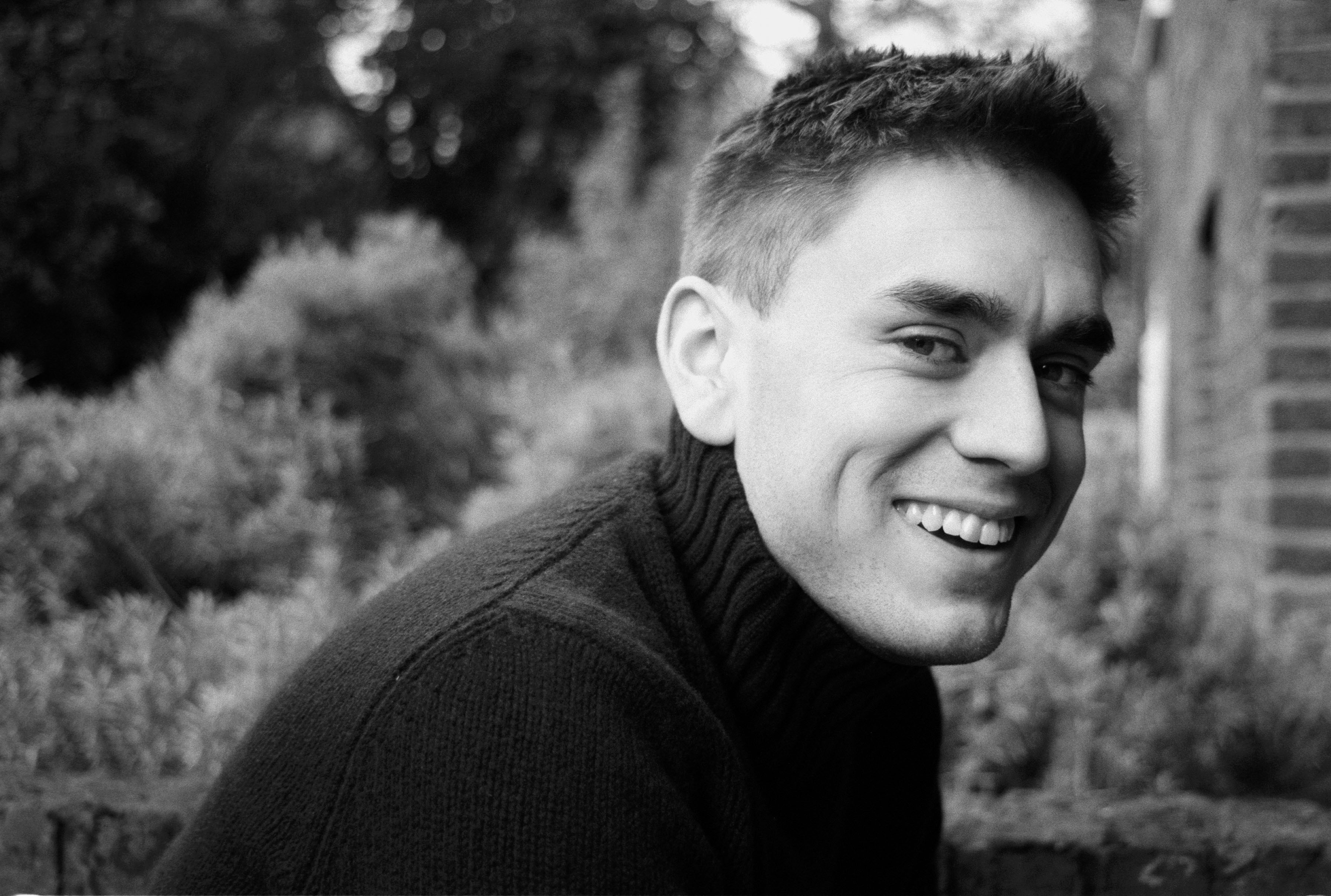 Photograph of James Mullinger, stand up comedian and journalist